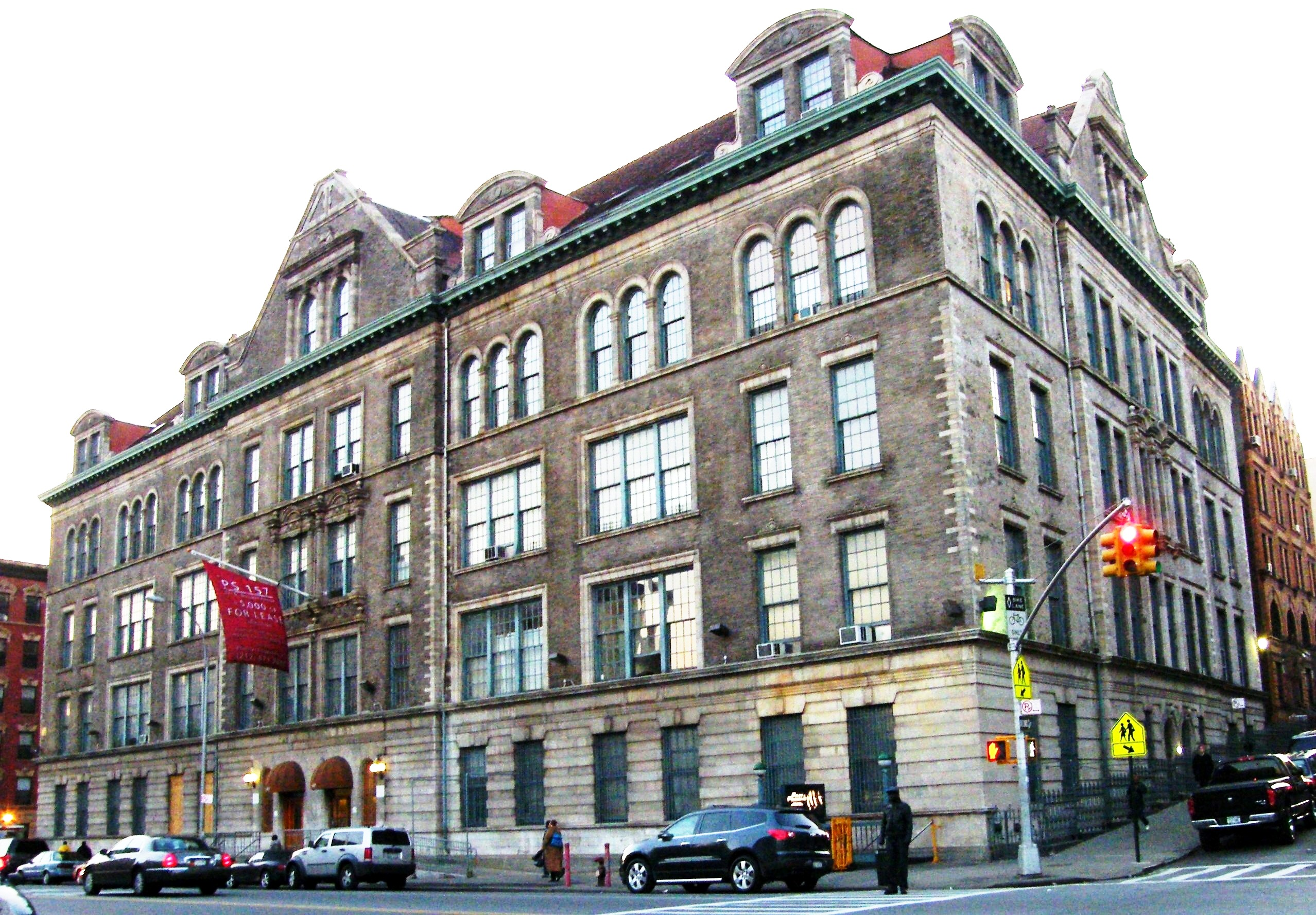 Looking west at PS157 across St. Nicholas Avenue and 127th Street, on National Register of Historic Places in New York City